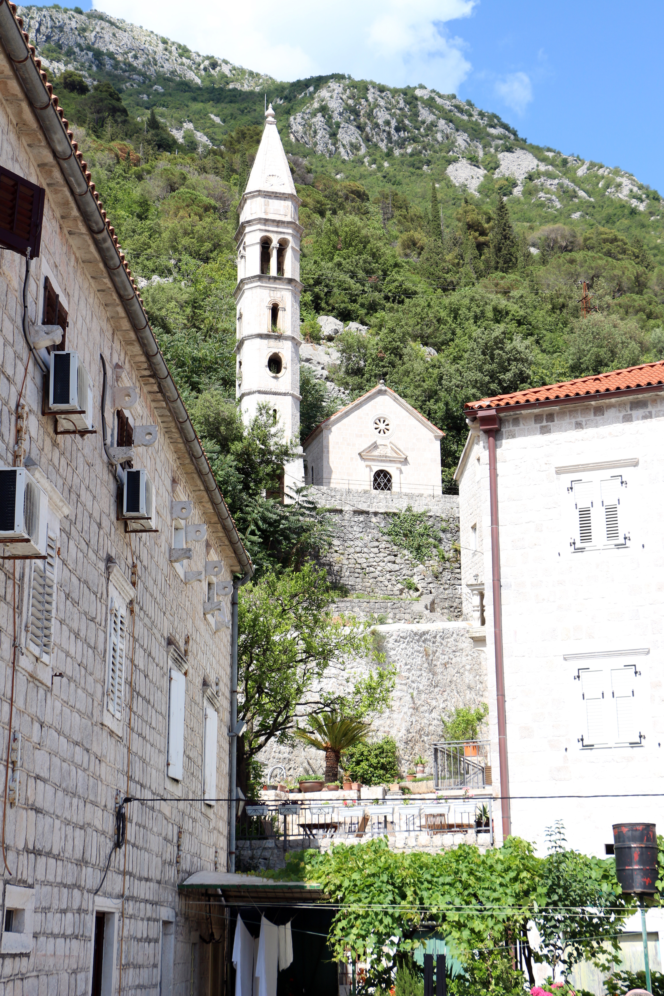 Perast